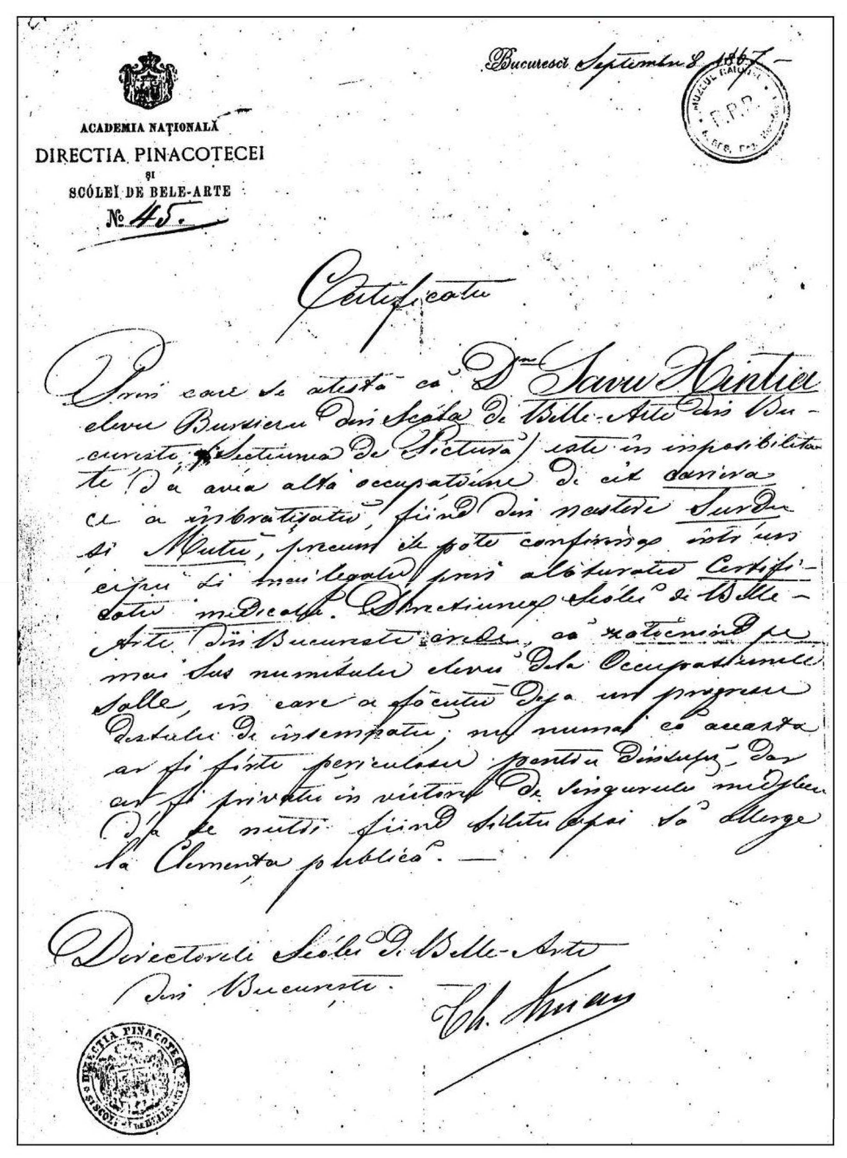 Certificat medical de la Şcola de Bele Arte din Bucureşti din data de 1867 - 12 septembrie